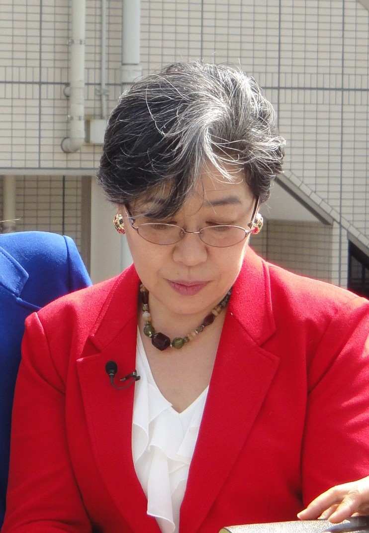 Japanese economist and journalist Hiroko Ogiwara during TV filming near the Tokyo Skytree in Tokyo, Japan